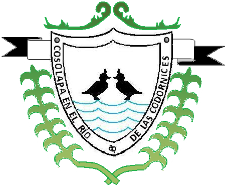 Coat of arms of Cosolapa municipallity.